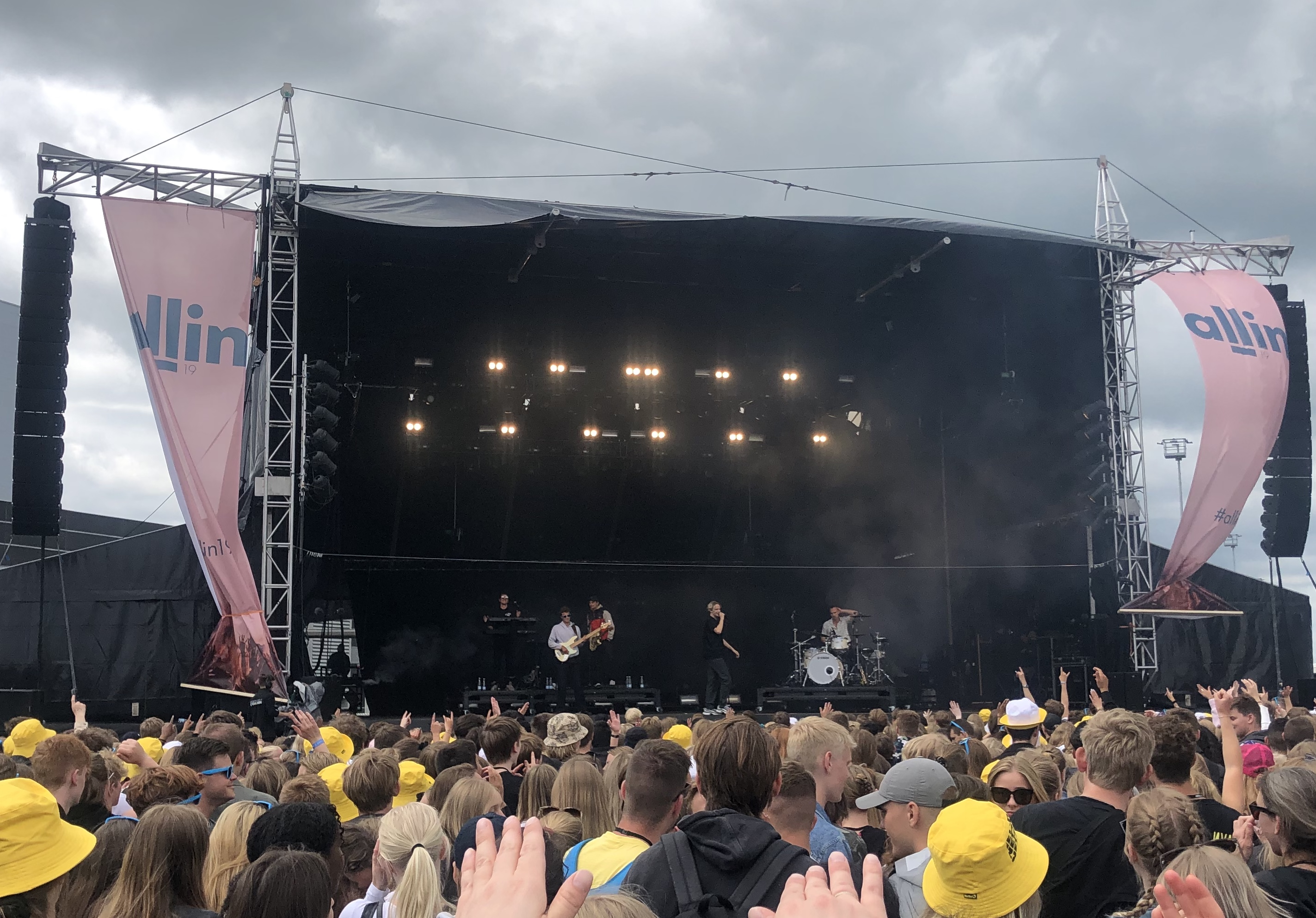 Danish pop band Scarlet Pleasure playing live at Salling Group business festival Allin 2019 in Brabrand, Århus.